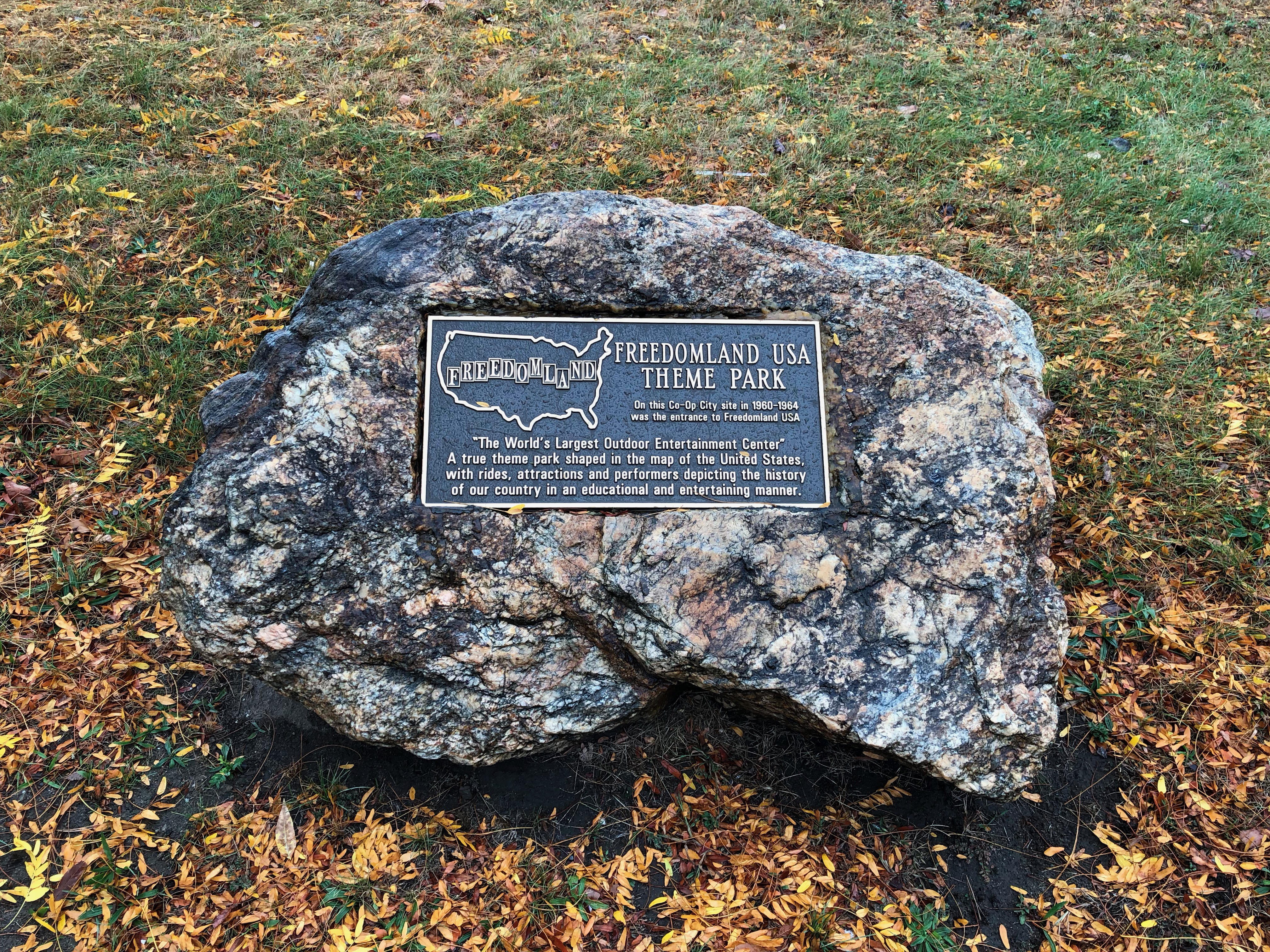 Freedomland USA plaque in Co-op City, The Bronx, New York City.